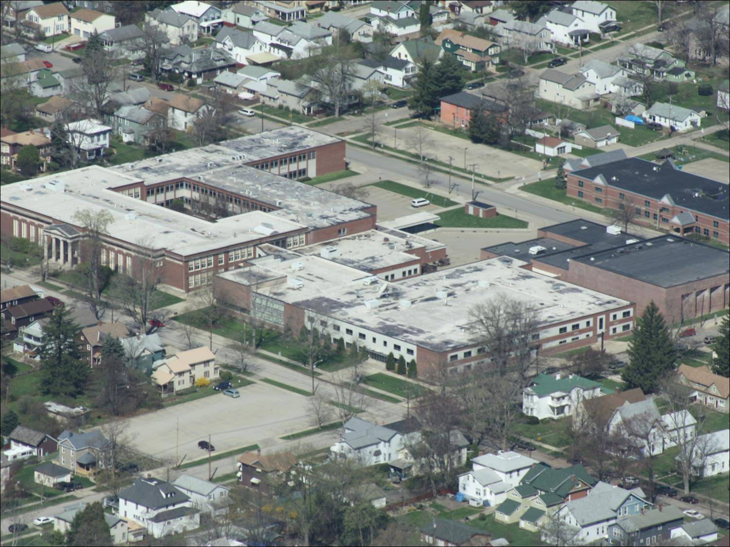 Aerial photograph of the Titusville Area High School taken by Scott R. Tenney aboard the plane of Steve Warner.